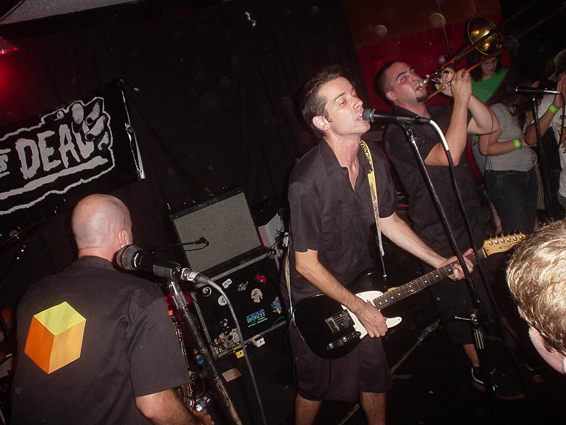 Photo of The Planet Smashers in concert, Baton Rouge, Louisiana.